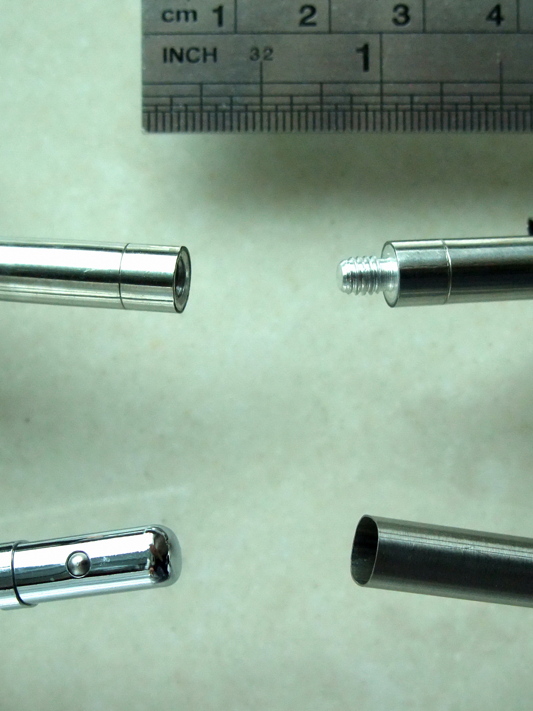 Close-up photo of reusable metal chopsticks.